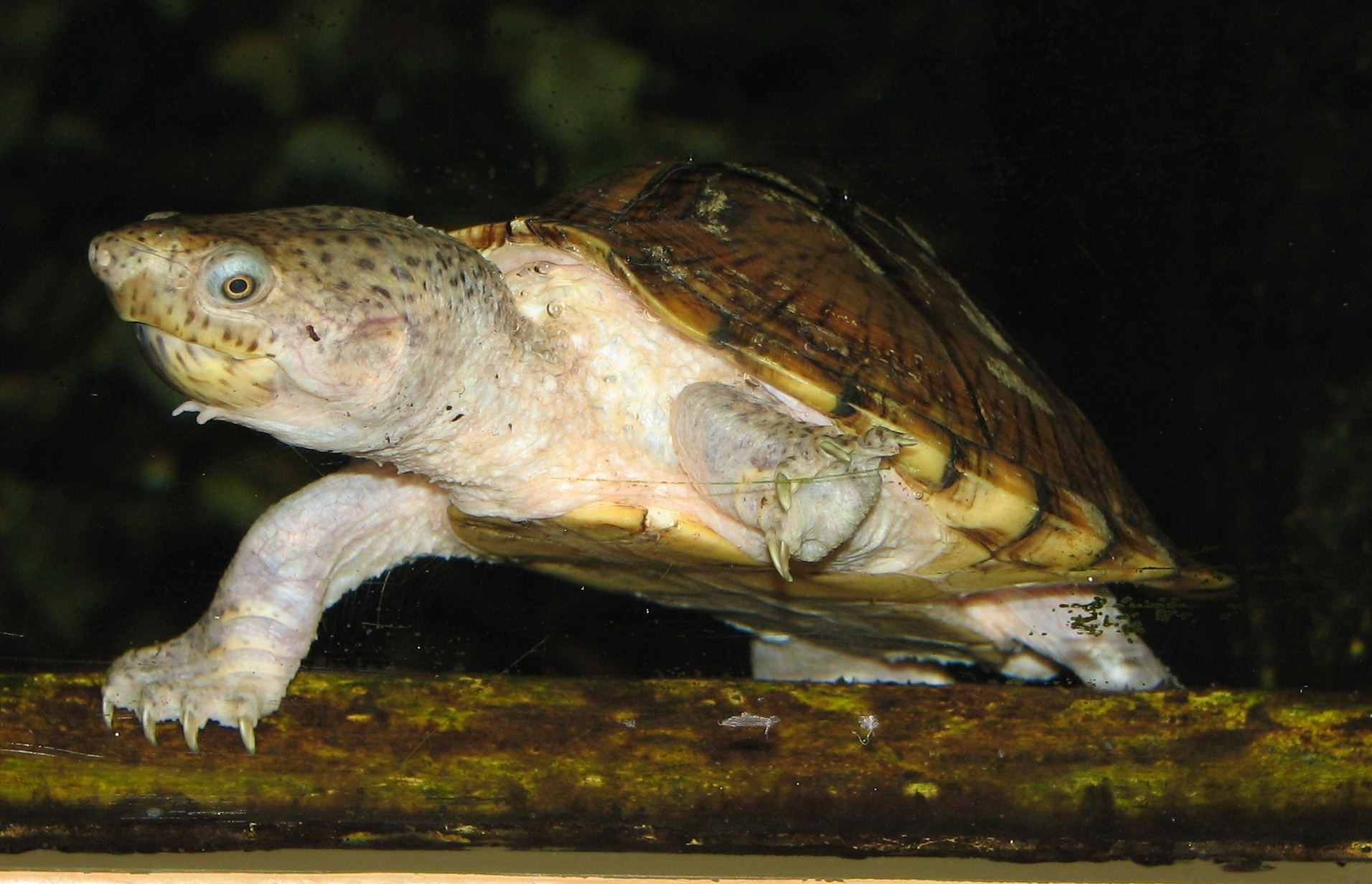 Razorback Musk Turtle - Sternotherus carinatus at Louisville Zoo in Kentucky